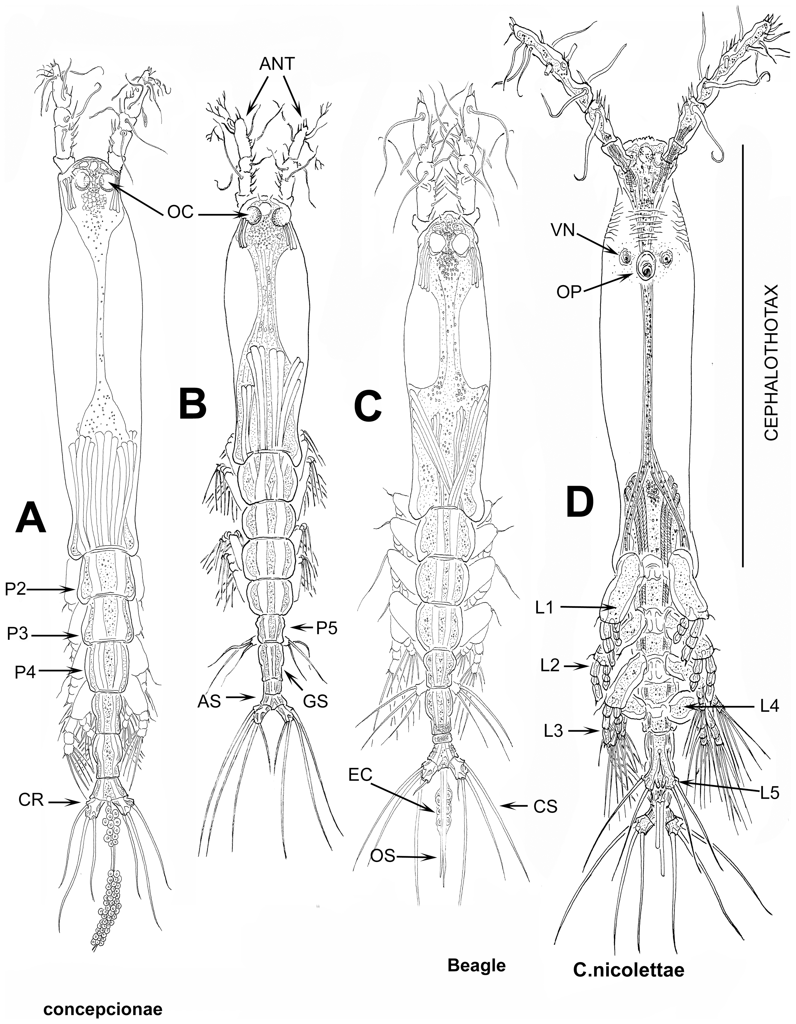 Generalized body plan and different body shapes of female Monstrilloida. A. Cymbasoma cocoense Suárez-Morales & Morales-Ramírez, 2009, habitus, dorsal view; B. Monstrillopsis chilensis Suárez-Morales et al. 2008, dorsal view; C. Monstrillopsis igniterra Suárez-Morales et al. 2008, dorsal view; D. Cymbasoma nicolettae Suárez-Morales, 2002, ventral view. ANT = antennules; AS = anal somite; CR = caudal ramus; CS = caudal seta; EC = egg cluster; GS = genital somite; L1–L5 = legs 1–5; OC = ocellus; OP = oral papilla; OS = ovigerous spine; P2–P5 = pedigerous somites 2–5; VN = ventral nipple-like process.